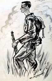 Self-portrait illustration by John McDermott (artist) while a combat artist for the US Marine Corps on Okinawa during World War II